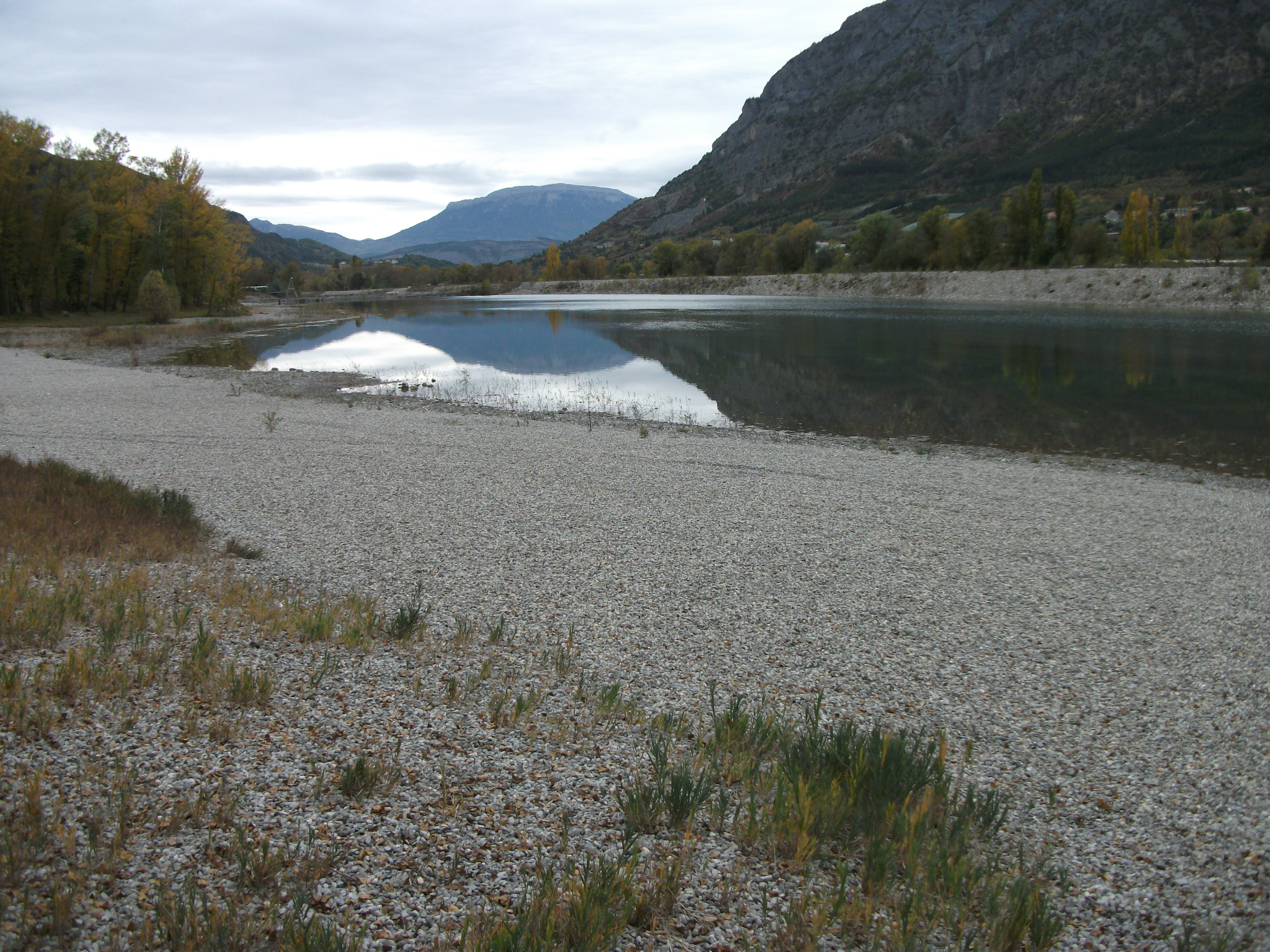 les 3 lacs (3 Lakes) in Rochebrune, Hautes-Alpes; on the second ground a river wall which separates 1st lake to Durance river